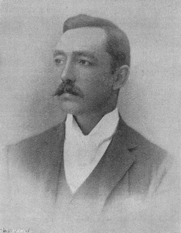 Scan from original